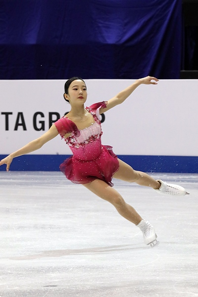 Photos – Junior World Championships 2017 – Ladies